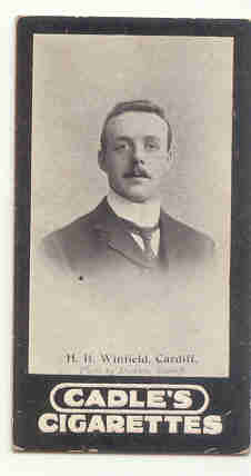 Bert Winfield Wales international rugby player also of Cardiff